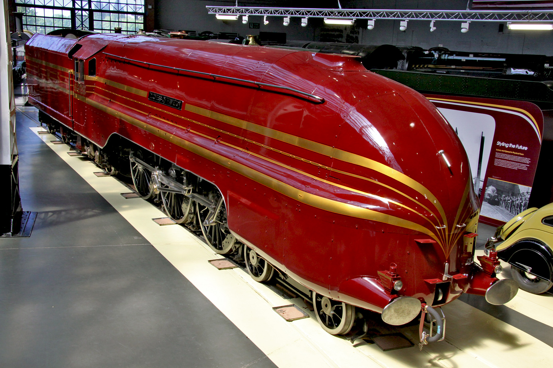 The National Railway Museum?s former London Midland and Scottish Railway Stanier 7P 4-6-2 ?Coronation? class locomotive number 6229 DUCHESS OF HAMILTON on display in the great hall at the National Railway Museum, York. Monday 1st June 2009